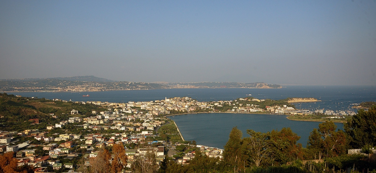 Bacoli